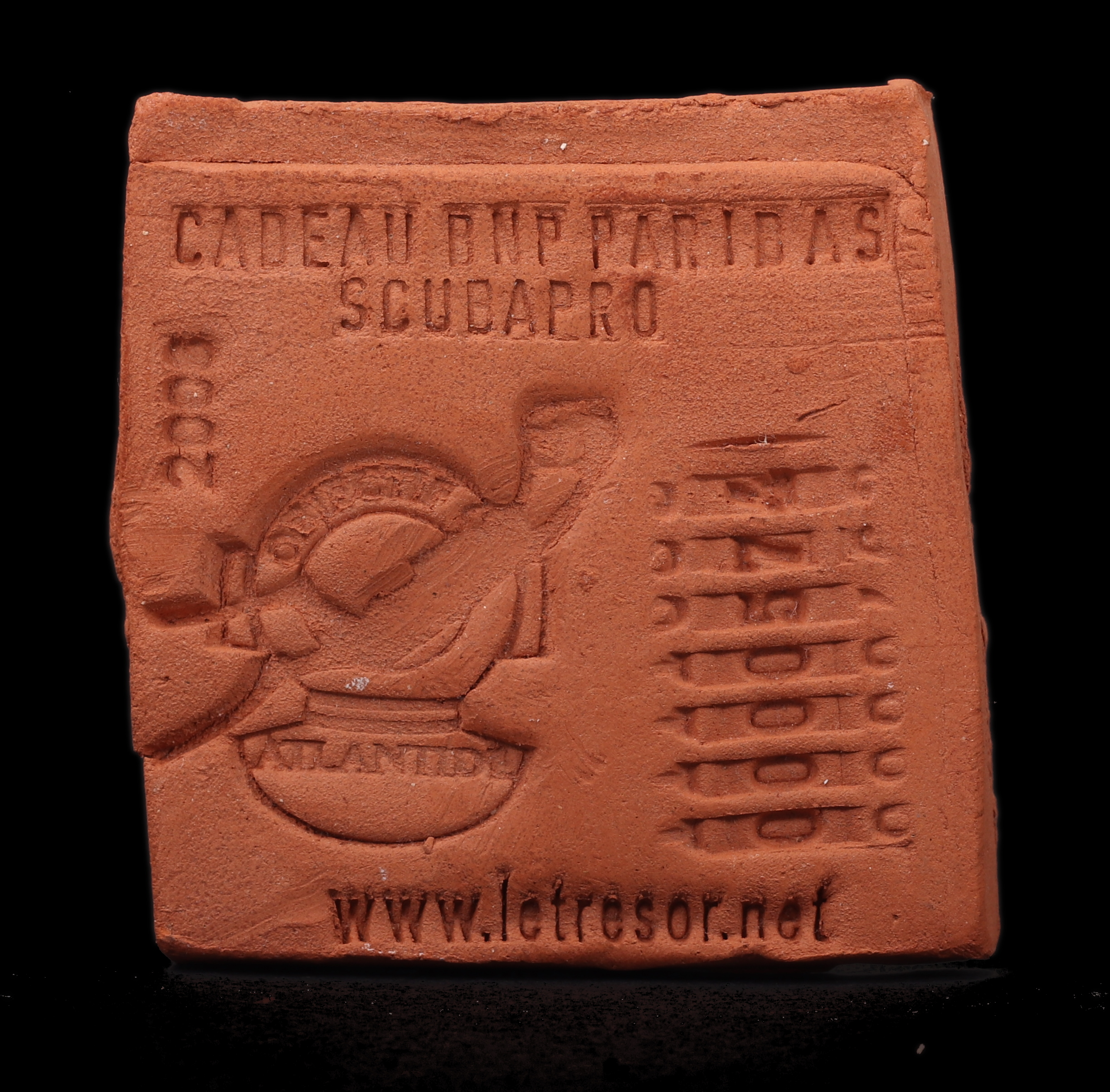 Diving token used in Objectif Atlantide game. ize: approximately 5 by 5 cm.